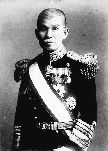 Arima Ryokitsu (有馬 良橘 Arima Ryokitsu, December 16, 1861 - 1 May 1944)